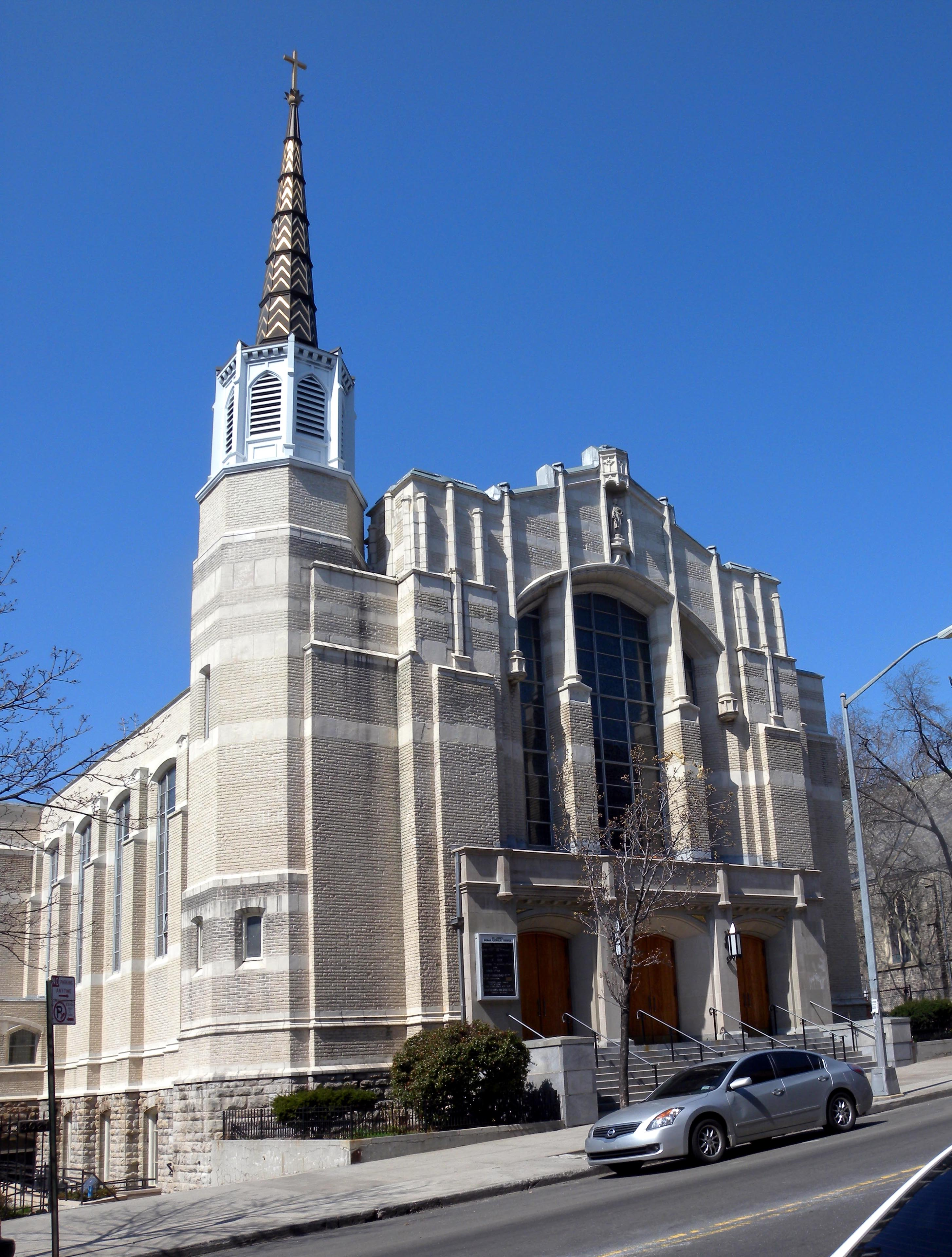 Looking northwest across Kingsbridge Avenue at St John's Roman Catholic Church between 230 and 321st Streets on a sunny midday. Organs in The Bronx